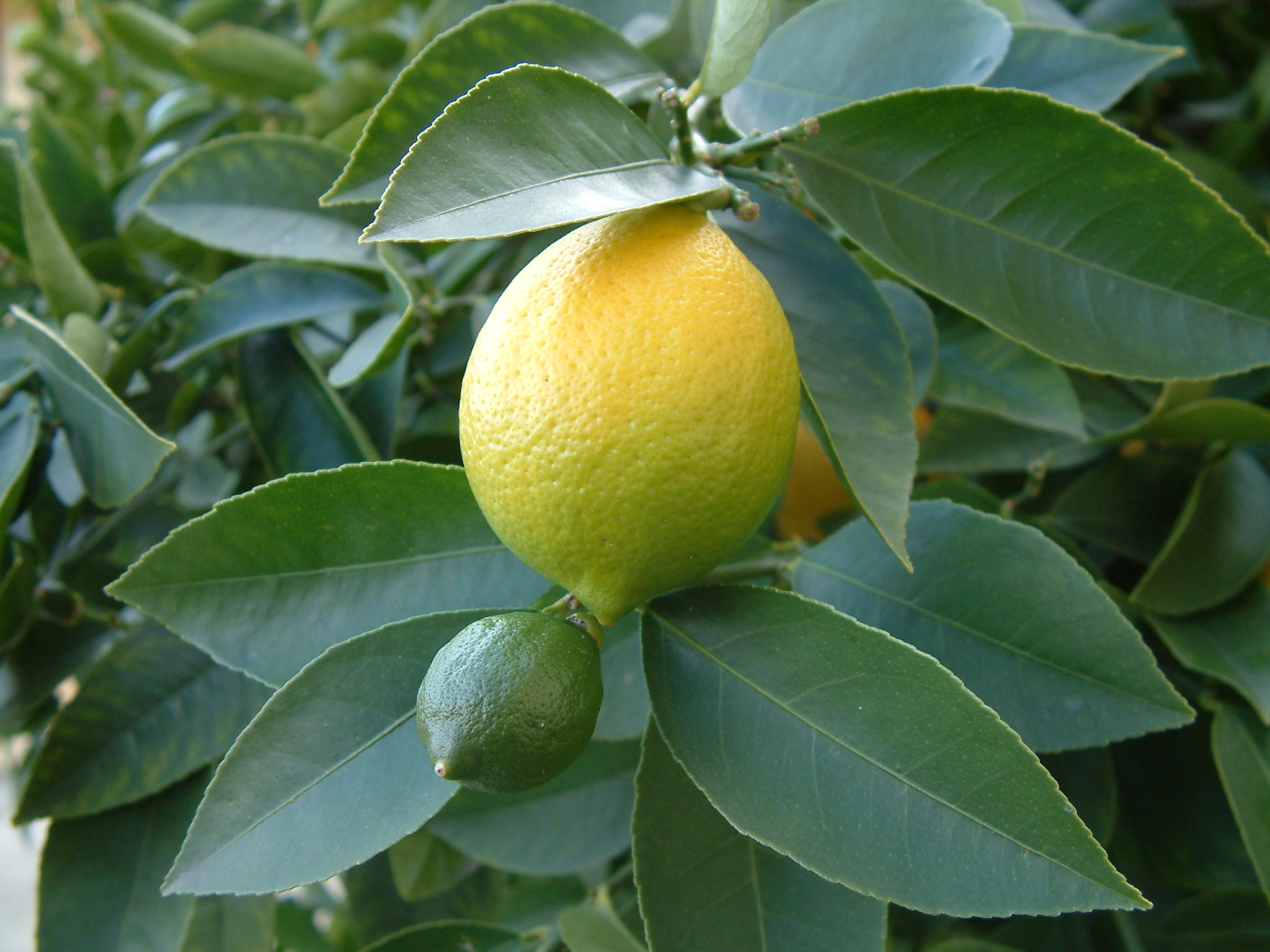 lemons